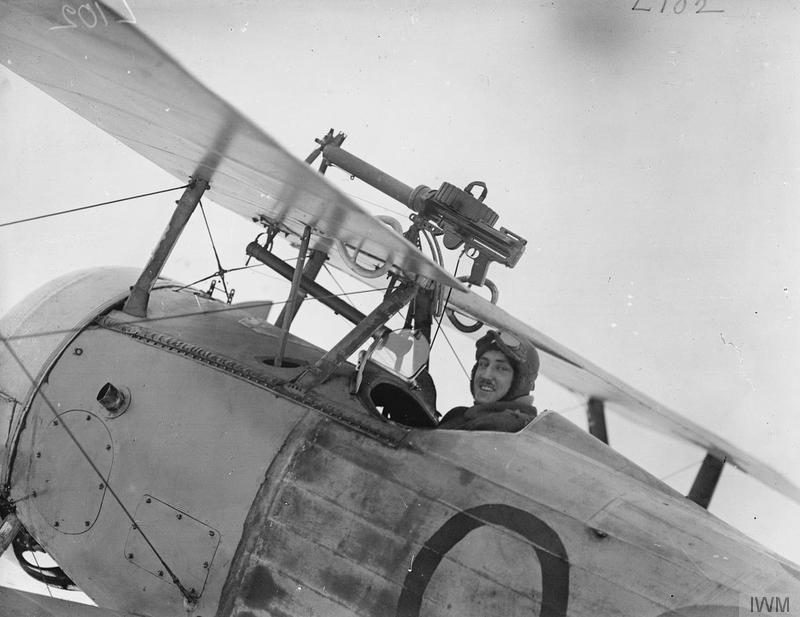 The Royal Flying Corps on the Western Front, 1914-1918 Pilot (possibly Captain Wendell W. Rogers of No. 1 Squadron RFC) in the cockpit of a Nieuport Scout biplane at Bailleul Aerodrome, 27 December 1917. Note a Lewis machine gun on upper plane.